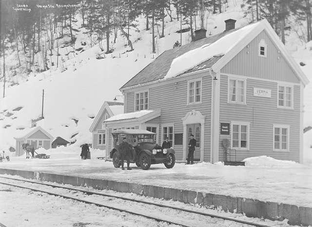 Verma railway station on Raumabanen, Norway.